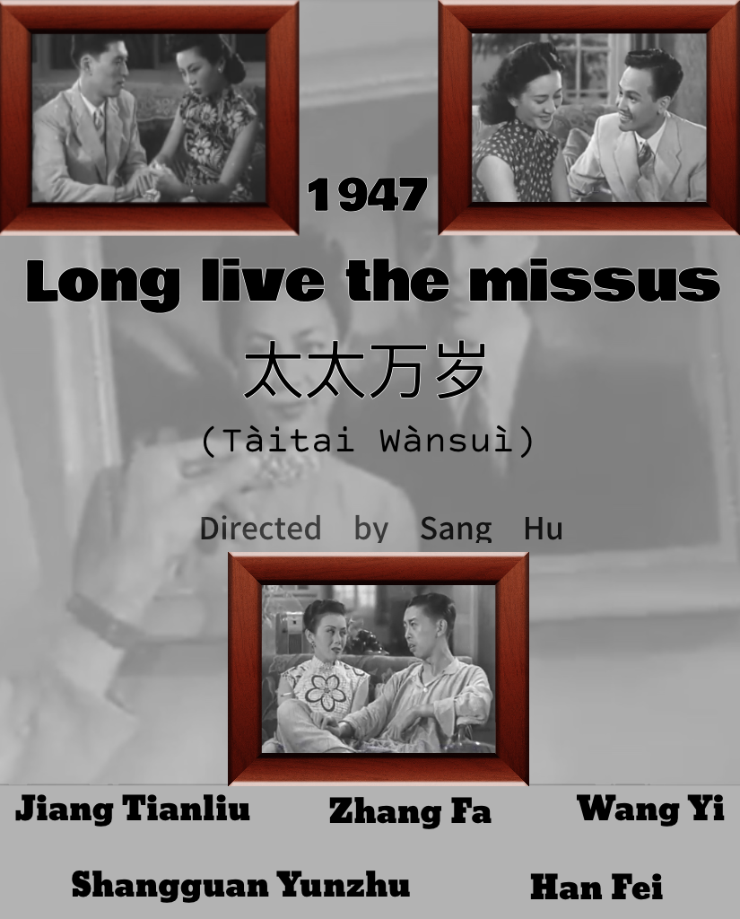 I captured the pictures from the film and created the poster for this film, as I realized that I can't find any suitable film poster for this film.